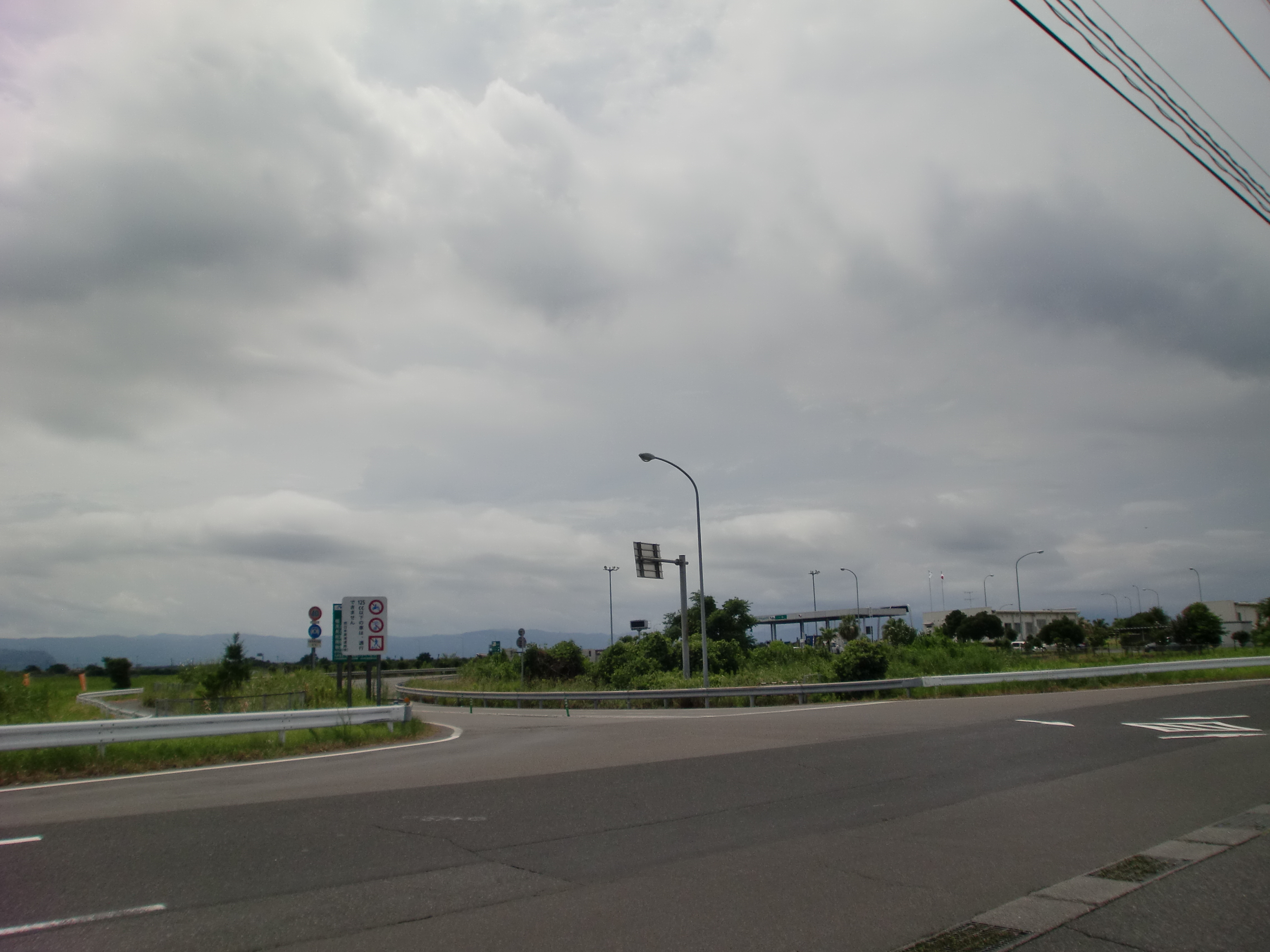 Entrance to Hayato-higashi Interchange